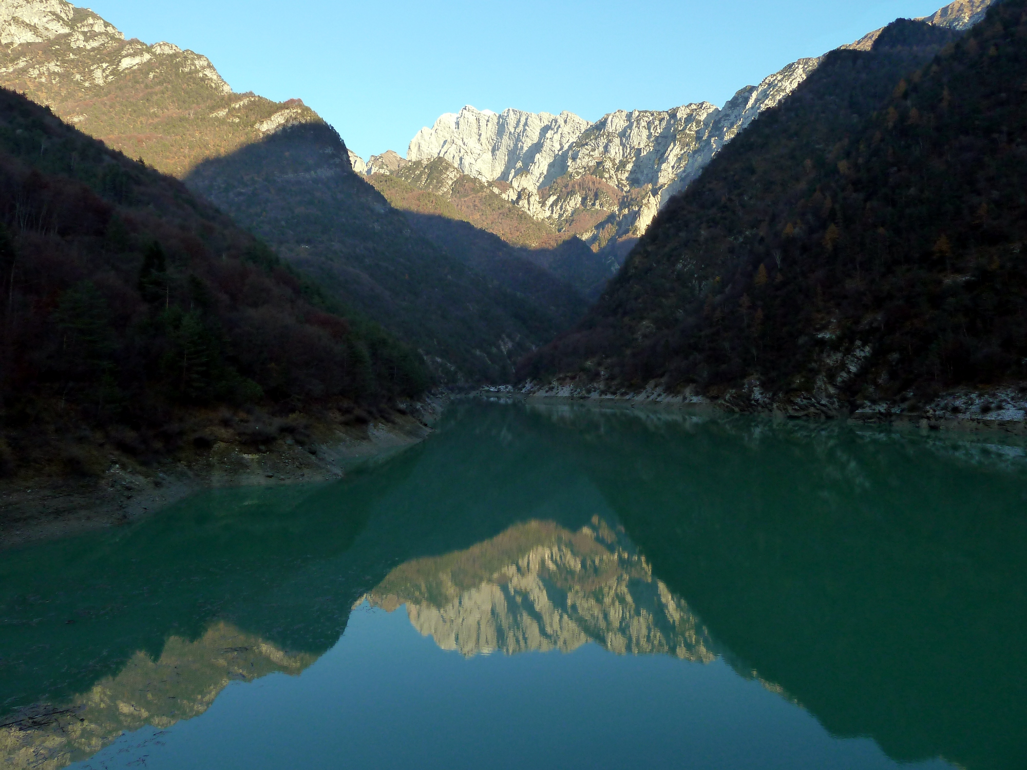 Val Gallina, Soverzene (BL), Italy. View of the mountains around the lake; Col Nudo on the backround.